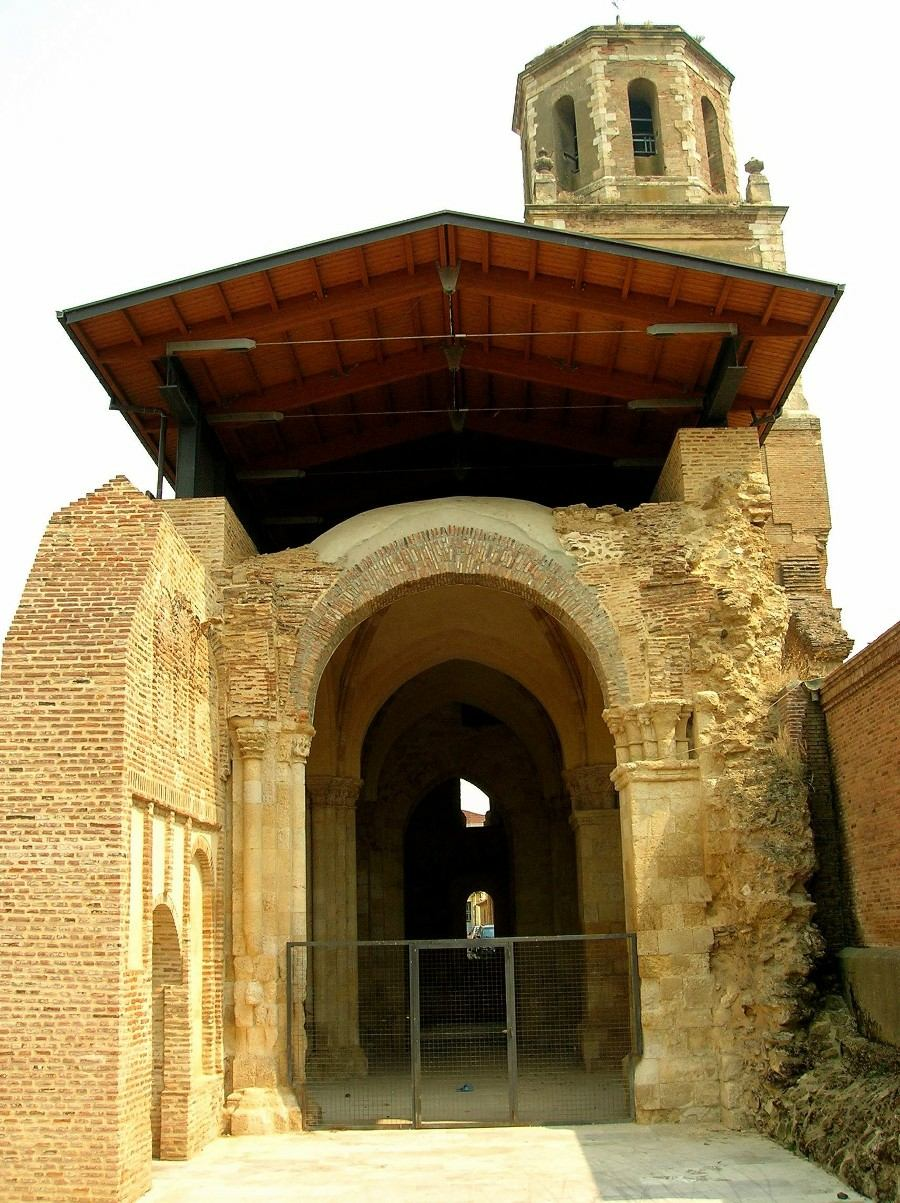 Capilla de San Mancio, resto del antiguo Monasterio de San Benito, en Sahagún (León, España)